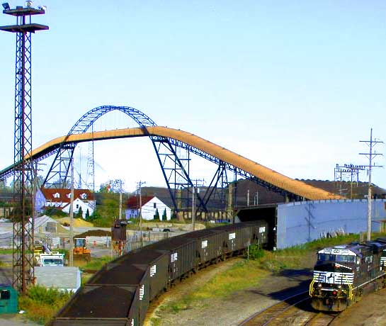 Railyard with coal train in Ashtabula, Ohio (taken Sept. 26, 2004) © 2004 Matthew Trump